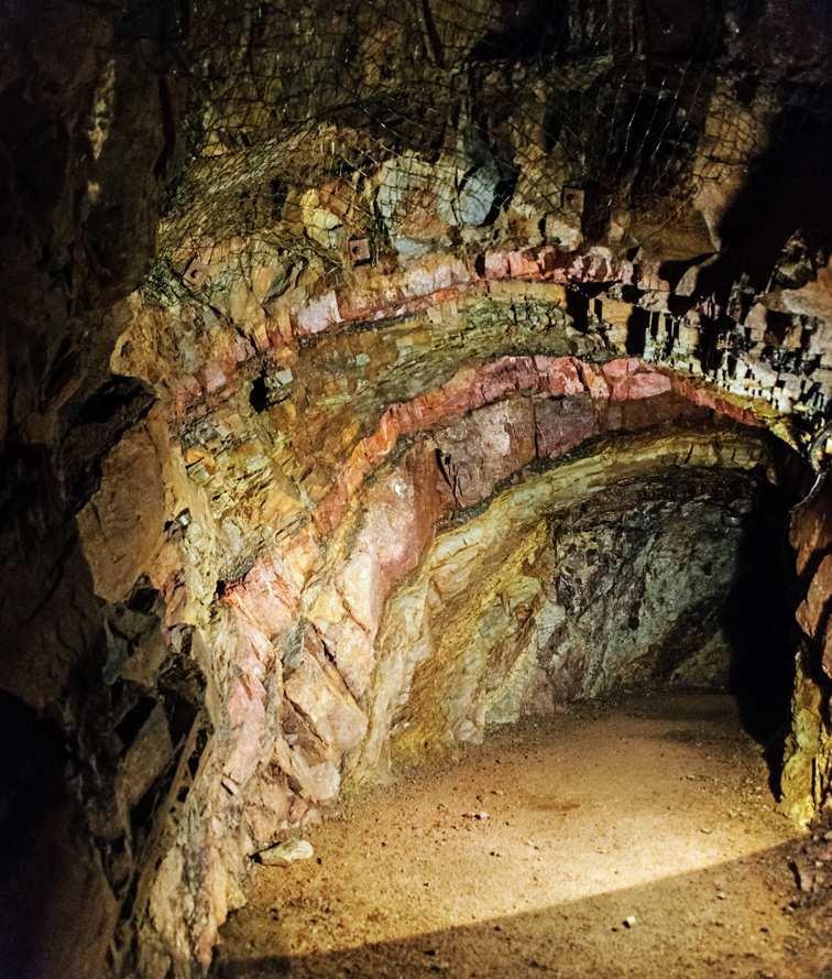 Distortions of the different rock layers in the mountains